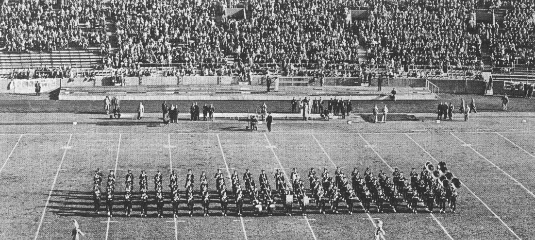 The Pitt Band performing Hail to Pitt at the end of a pregame show in 1953 at the University of Pittsburgh.